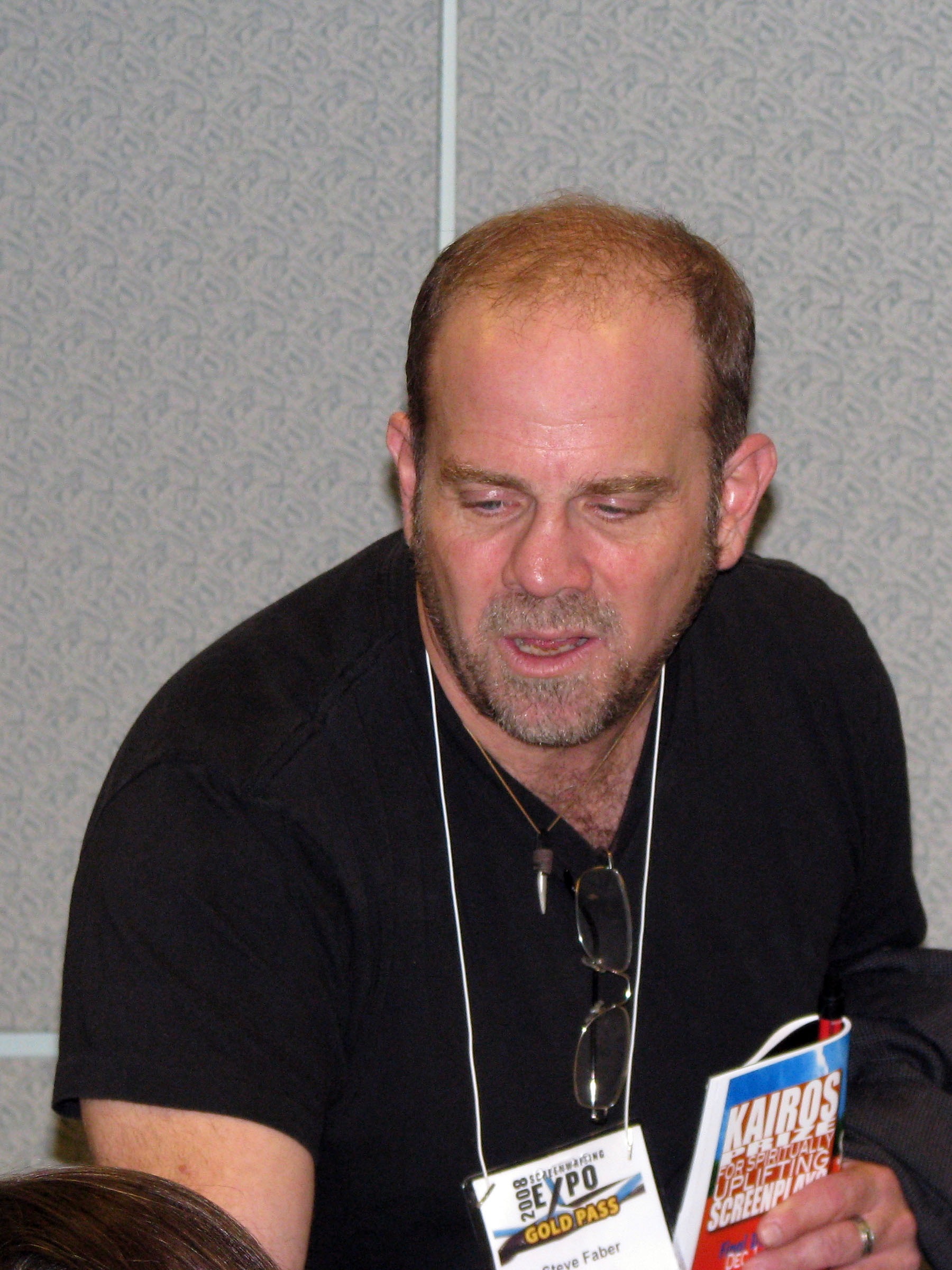 Wedding Crashers screenwriter Steve Faber He told a bunch of bizarre stories and fellow panelist Aline Brosh McKenna refused to take him seriously.